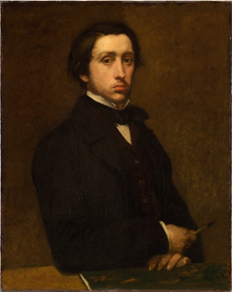 Courtesy of the Musée d'Orsay, Paris.